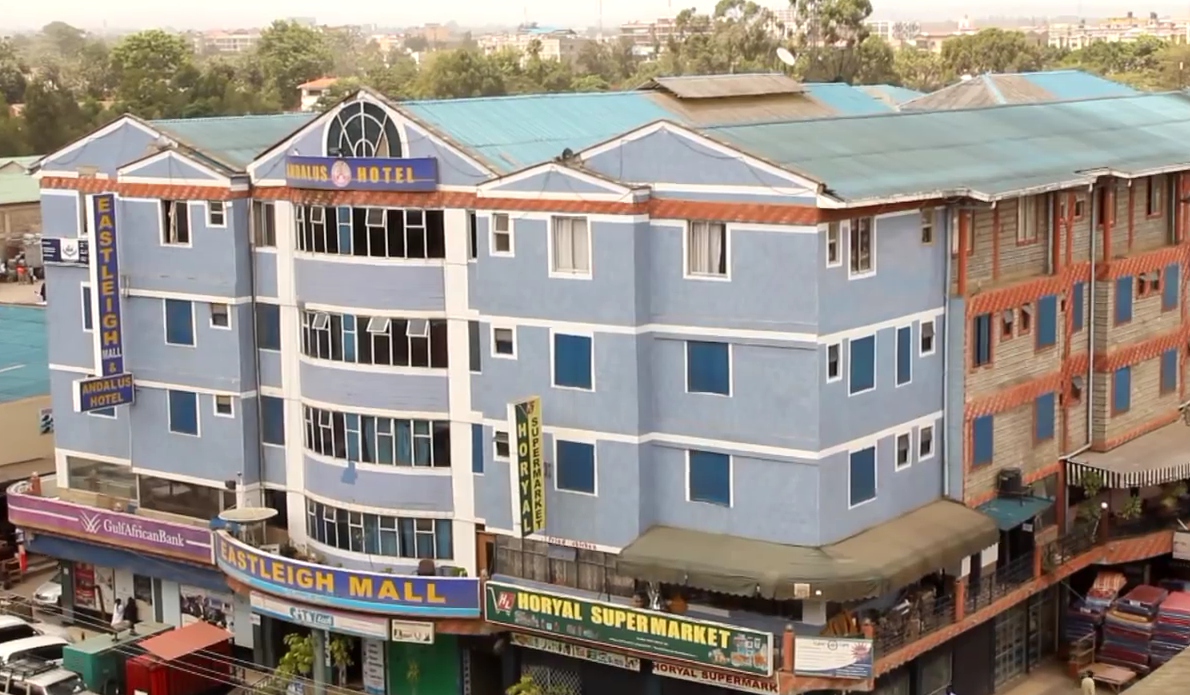 A Somali-owned mall in Eastleigh, Nairobi, Kenya.